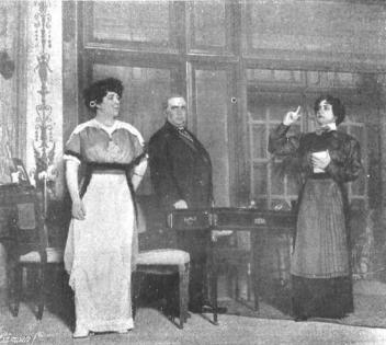 Los actores Nieves Suárez, María Palou y Pedro Sepúlveda de una escena del estreno de la obra de teatro Celia en los infiernos, de Benito Pérez Galdós